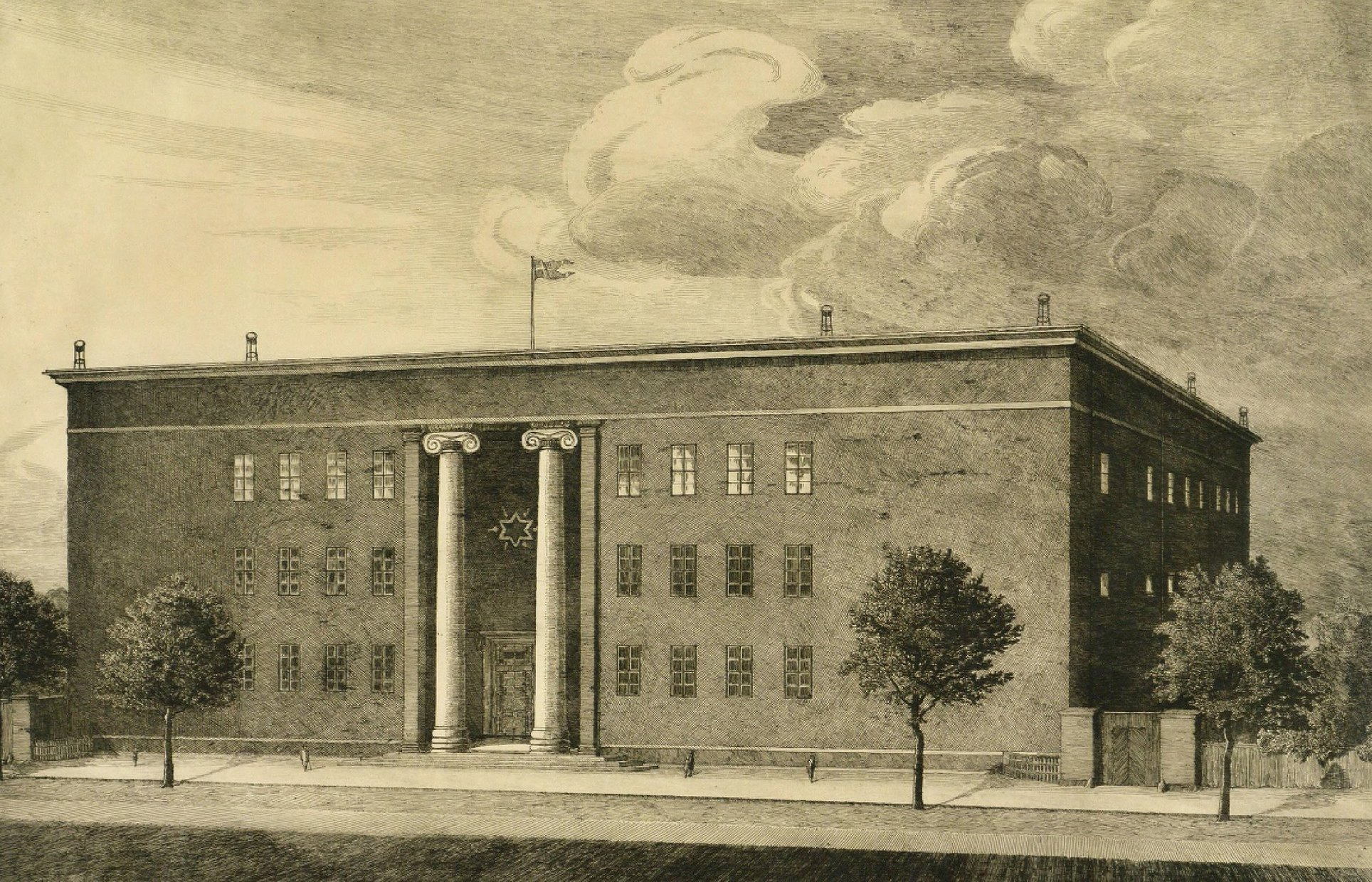 Drawing showing the building owned by the Danish Order of Freemasons in Copenhagen, Denmark.